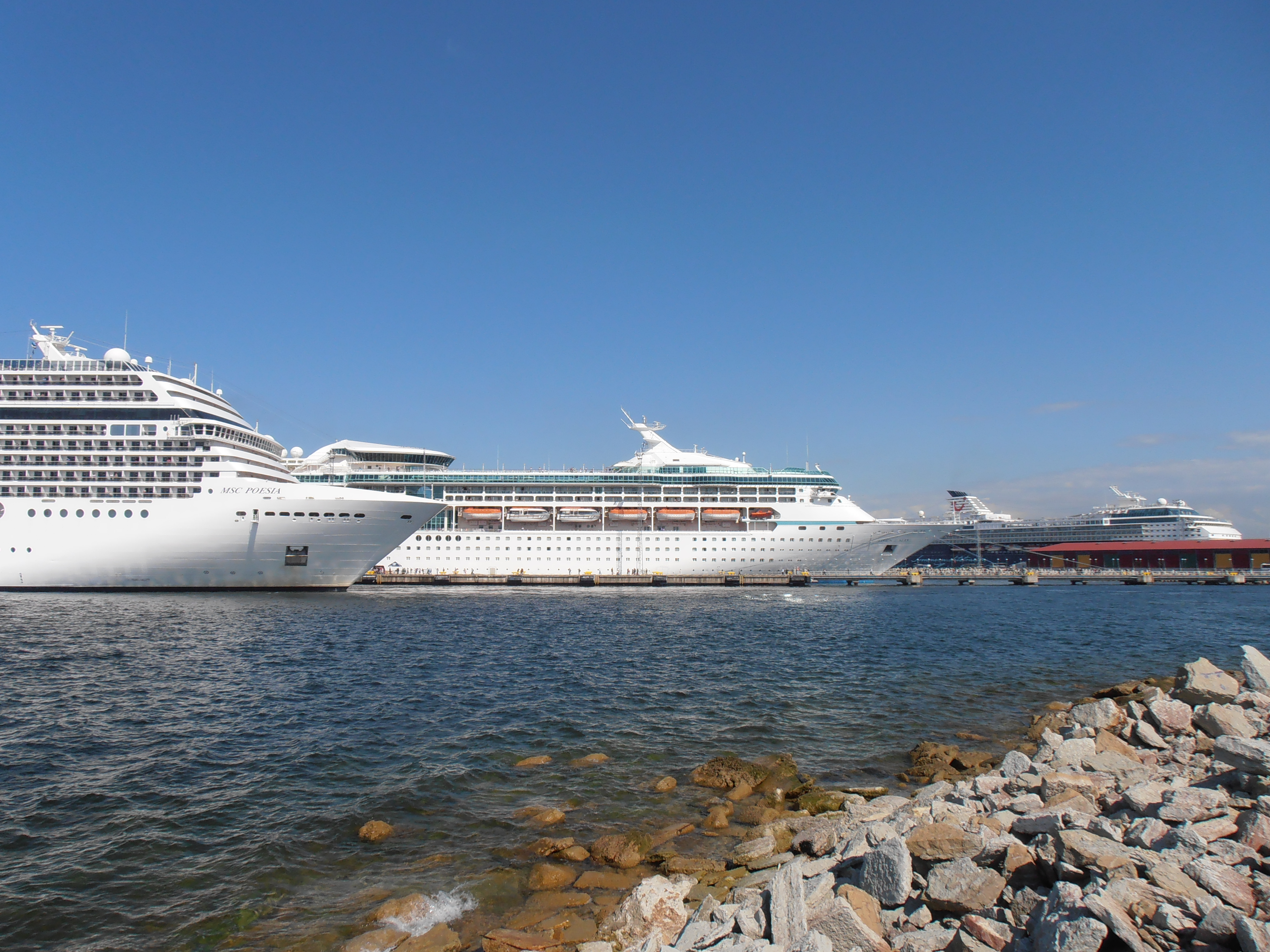 MSC Poesia, Vision of the Seas & Mein Schiff 2 in Tallinn 13 June 2012